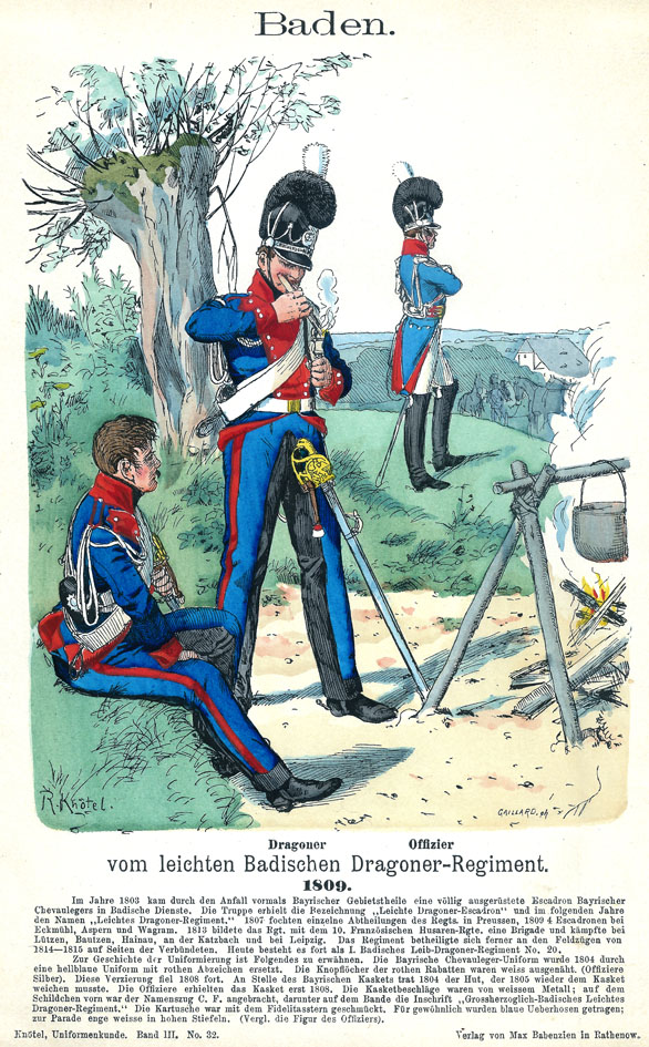 Baden: Dragoner und Offizier vom leichten Badischen Dragoner-Regiment. 1809